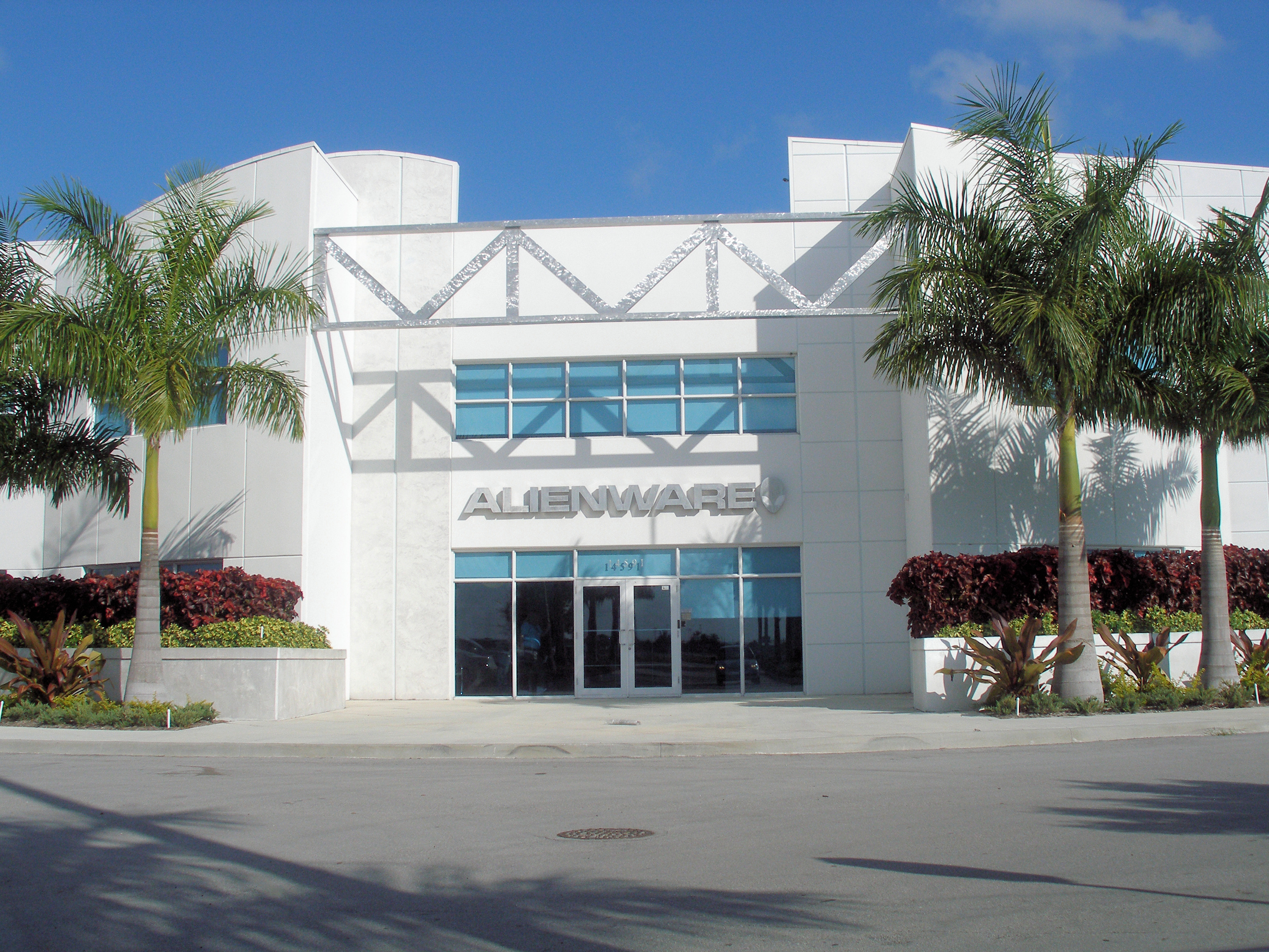 Alienware headquarters in Kendall, across the street from the Kendall-Tamiami Executive Airport. Kendall is an unincorporated community controlled directly by Miami-Dade County.